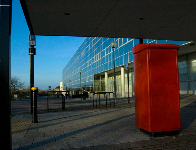 Ashton House, Milton Keynes Office block on Silbury Boulevard